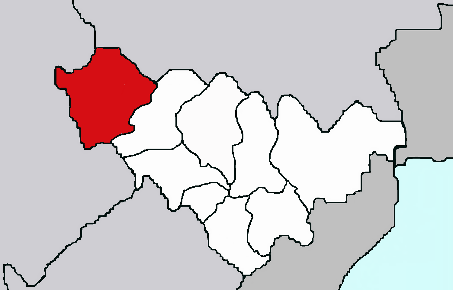 Maps of Jilin Province , China